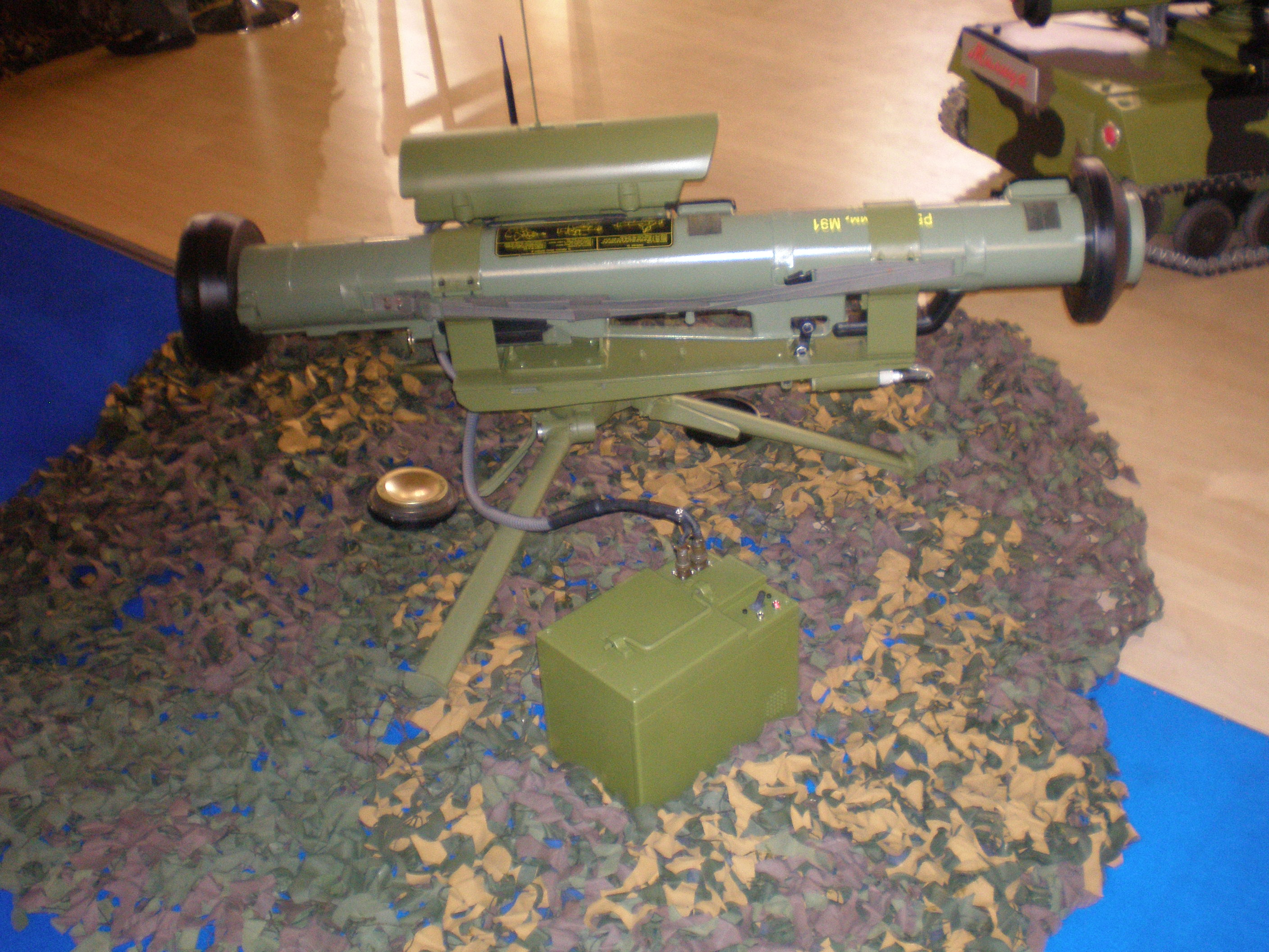 M90 Stršljen anti-tank rocket launcher on display at "Partner 2009" military fair.